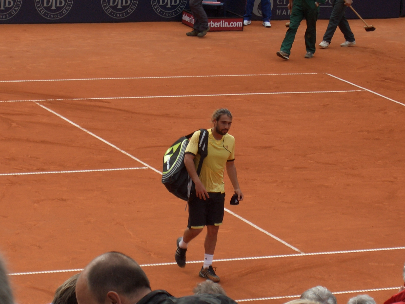 Marcos Baghdatis at the Hamburg Masters 2007